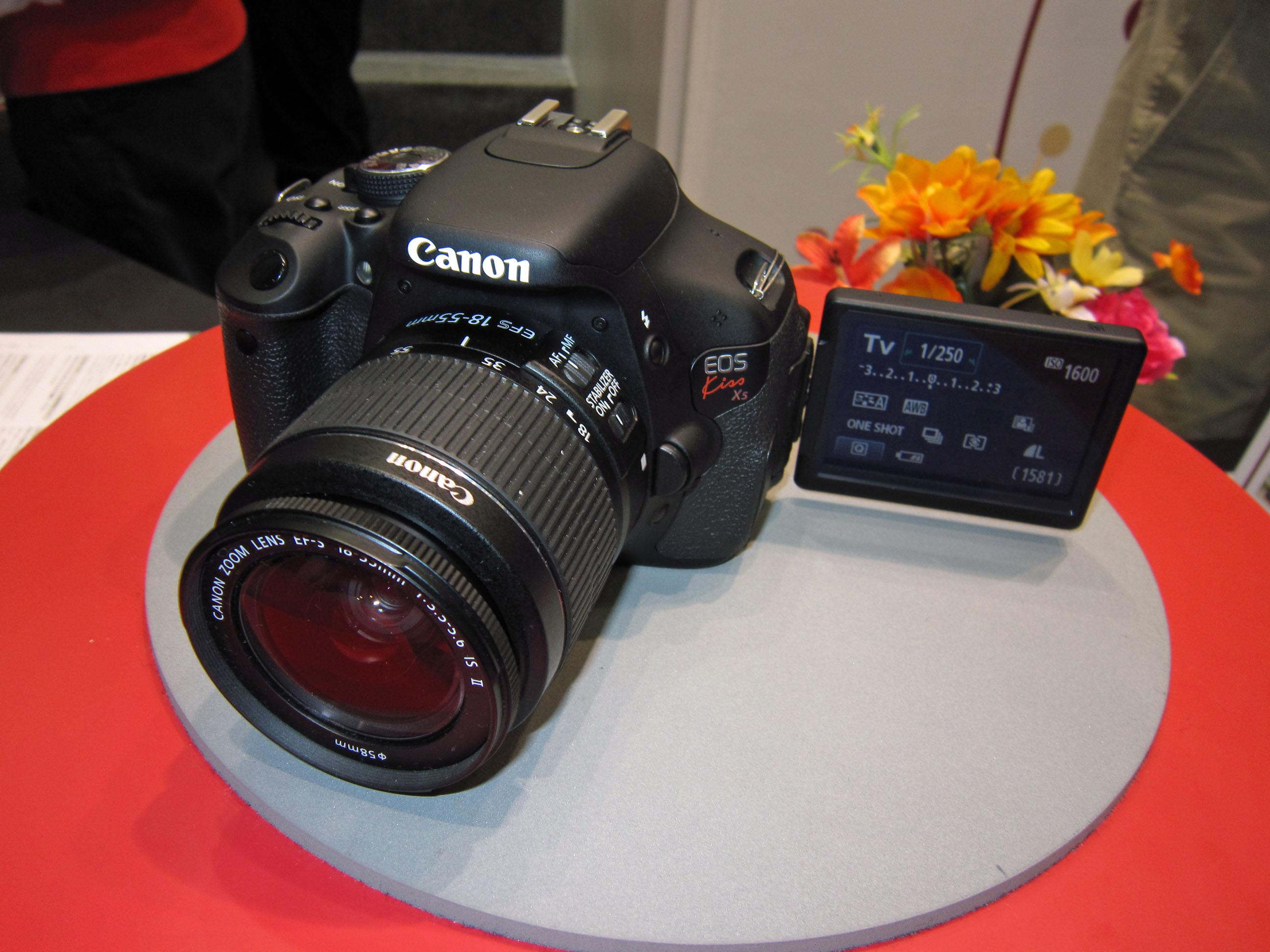 Canon EOS Kiss X5 (Canon EOS 600D) with EF-S 18-55mm f/3.5-5.6 IS II at CP+ 2011 Canon Booth (Pacifico Yokohama), Nishi-ku, Yokohama, Kanagawa, Japan.